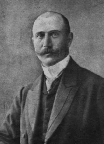 Portrait of the politician Gyula Kovács